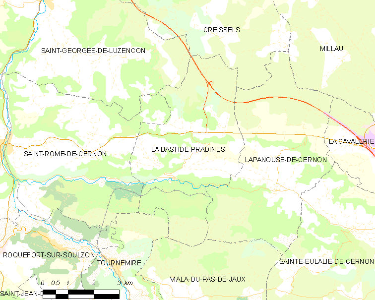 Map commune FR insee code 12022.png - La Bastide-Pradines